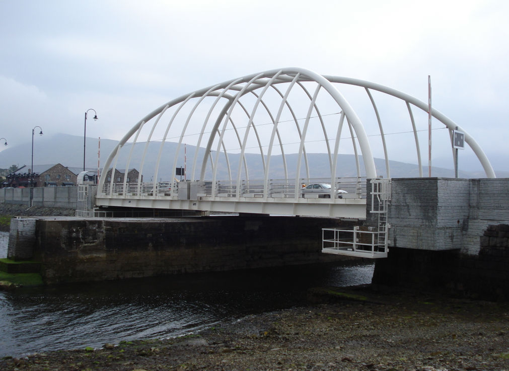 The new (third) Michael Davitt Bridge over the Achill Sound